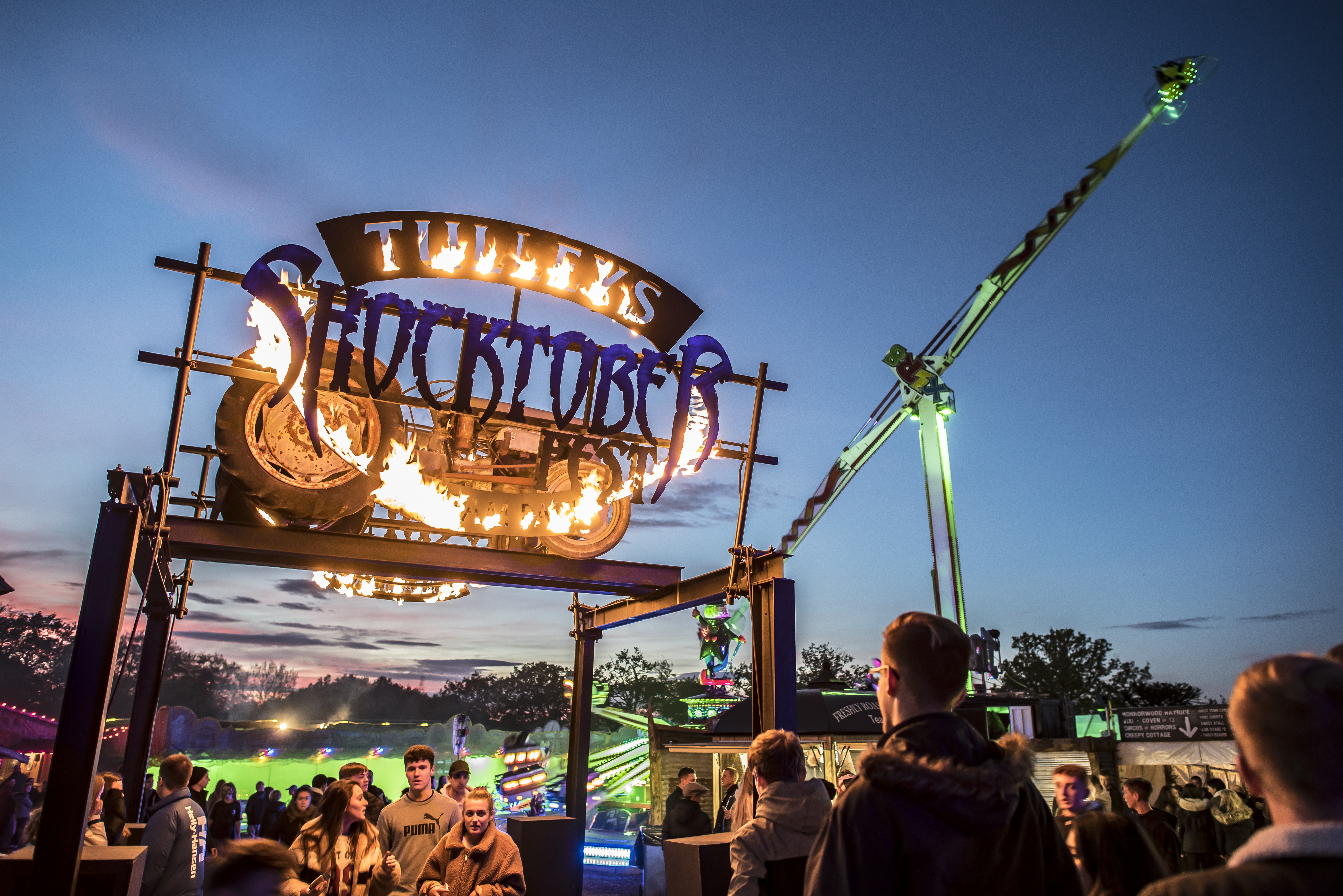 Shocktober Fest Flamming tractor sign